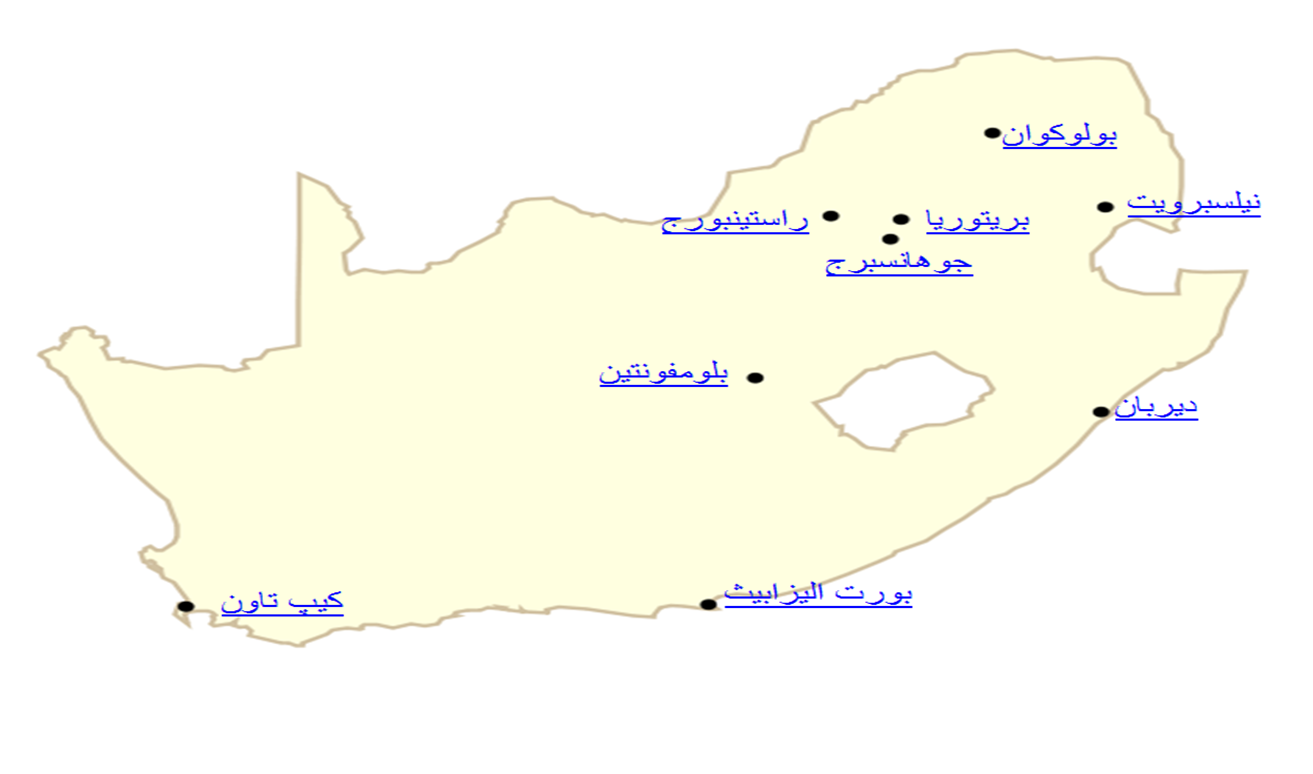 This is a locator map specifically for showing 2010 FIFA World Cup venues.